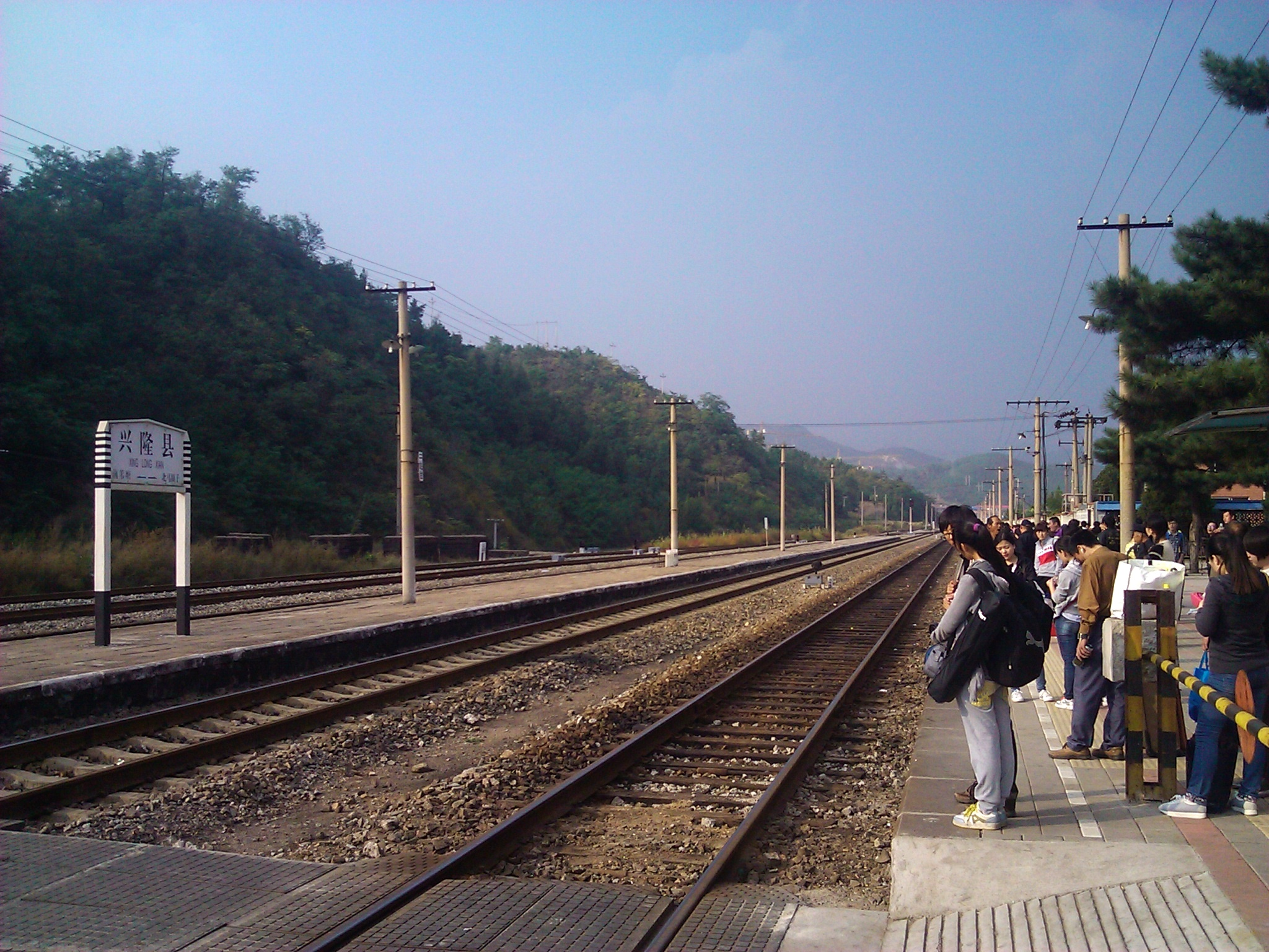 兴隆县火车站 - Xinglong County Railway Station - 2012.09